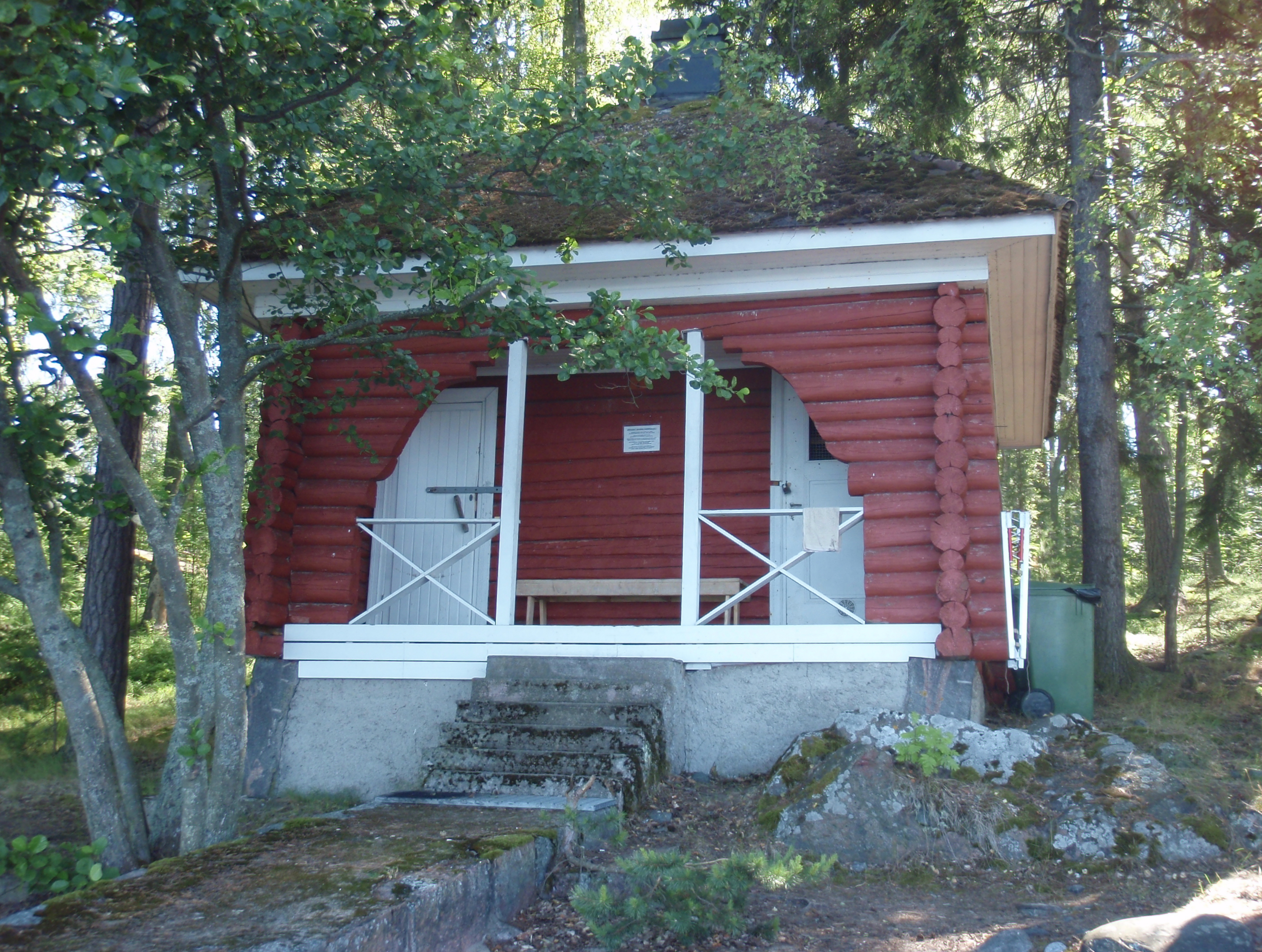 A sauna on Malkasaari island in Helsinki, Finland